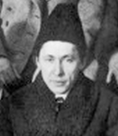 Vasily Schmidt attending the 8th Party Congress in 1919.